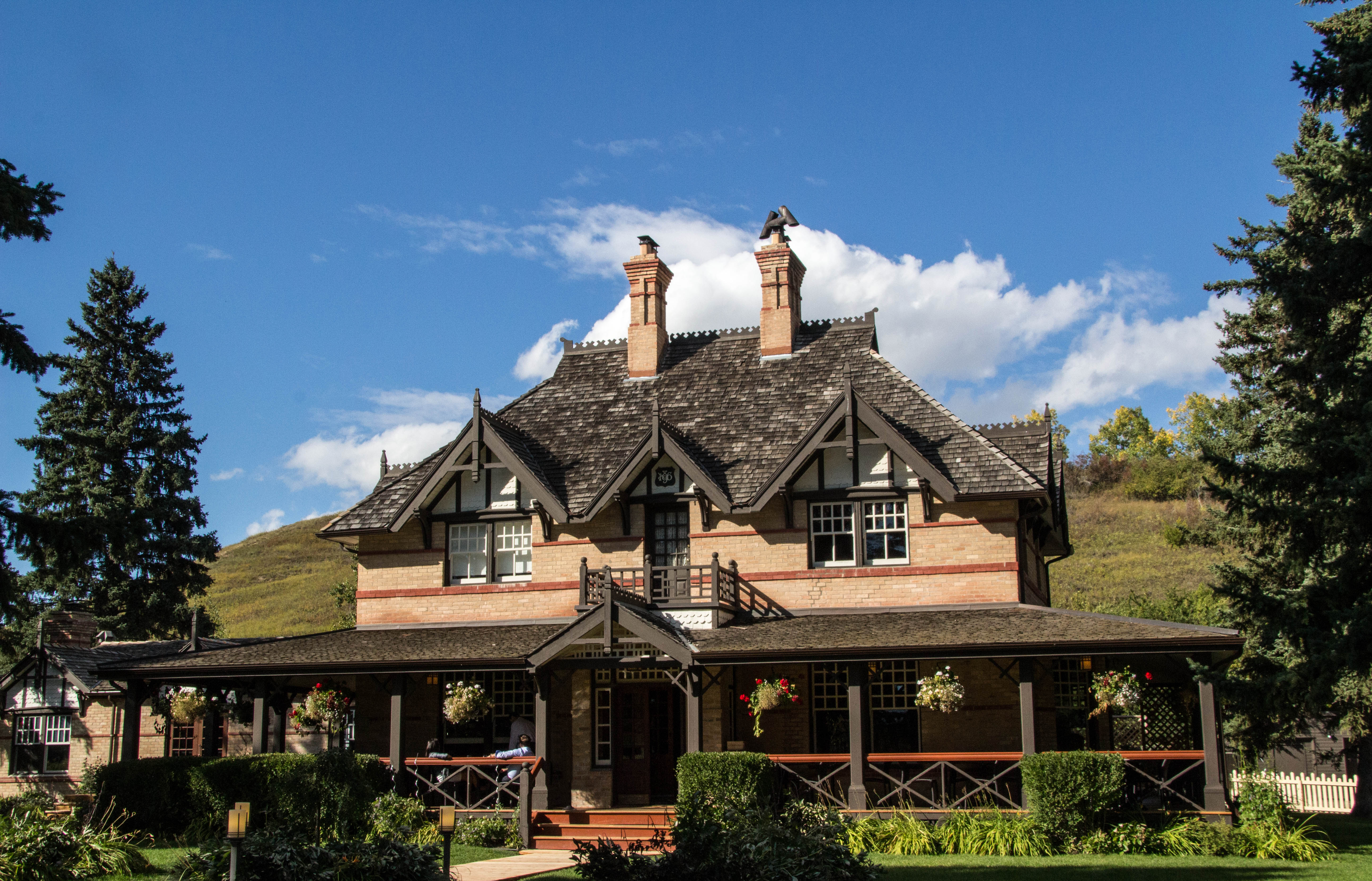 This is the William Roper Hull Ranche House at Fish Creek Park, in Calgary, Alberta, Canada. It is also known as the Bow Valley Ranch House.